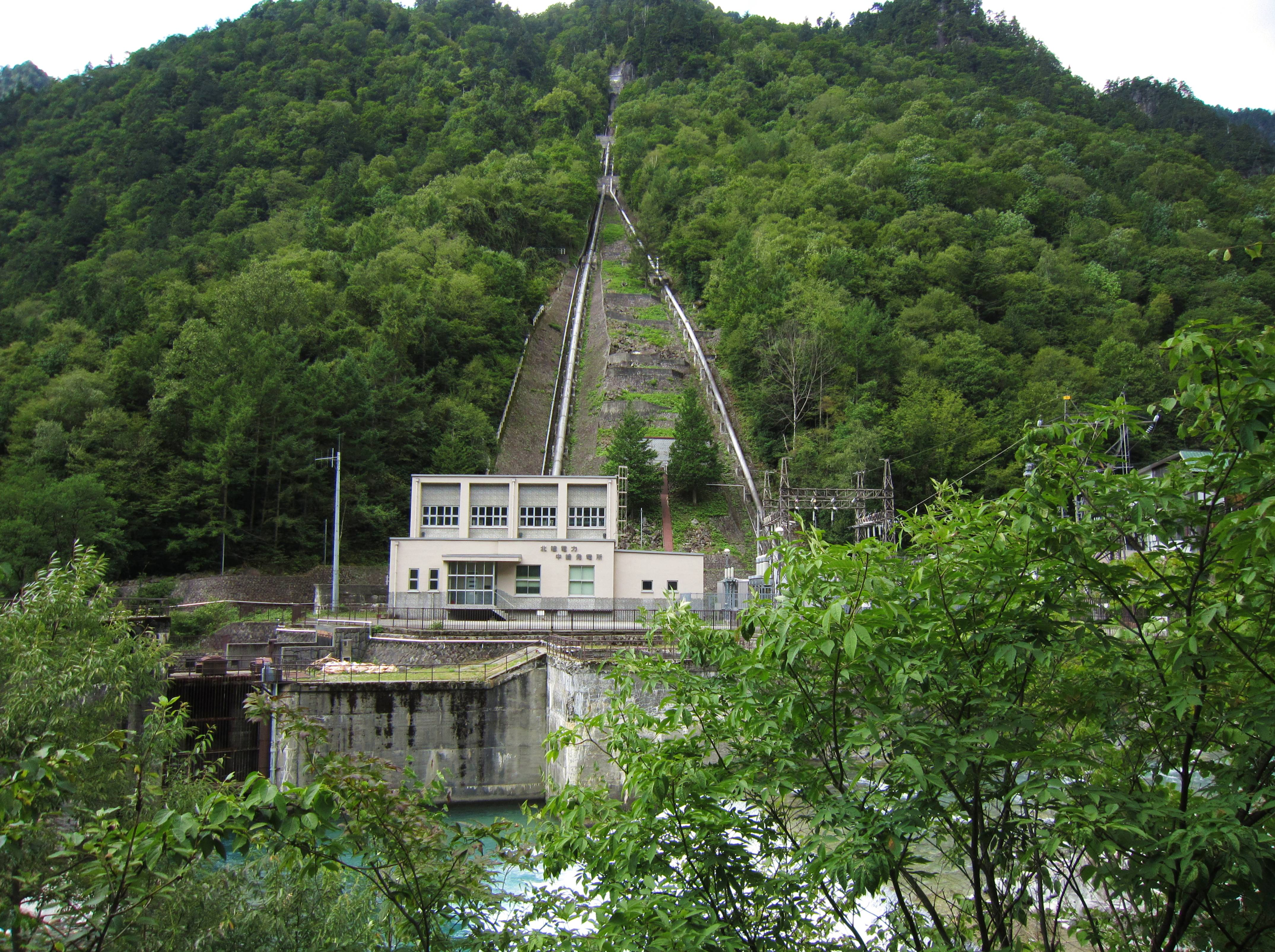 Nakasaki power station.